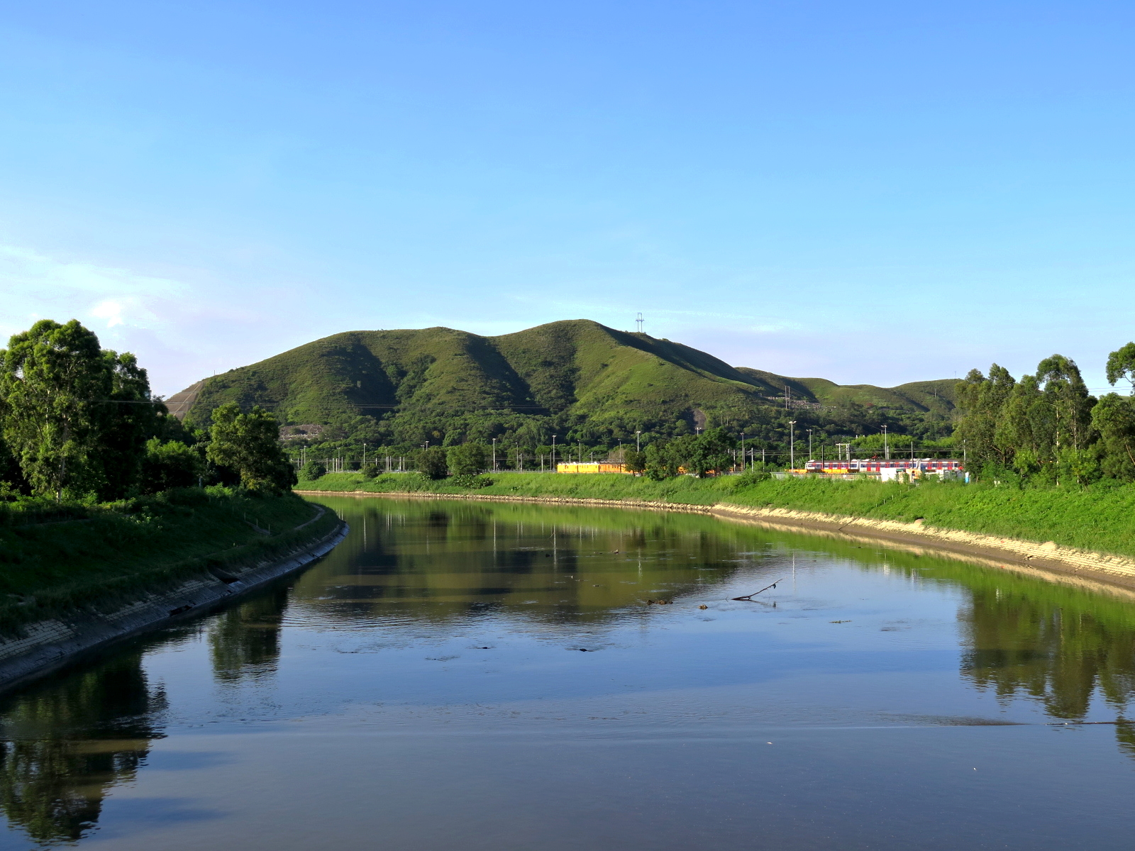 Sandy Ridge